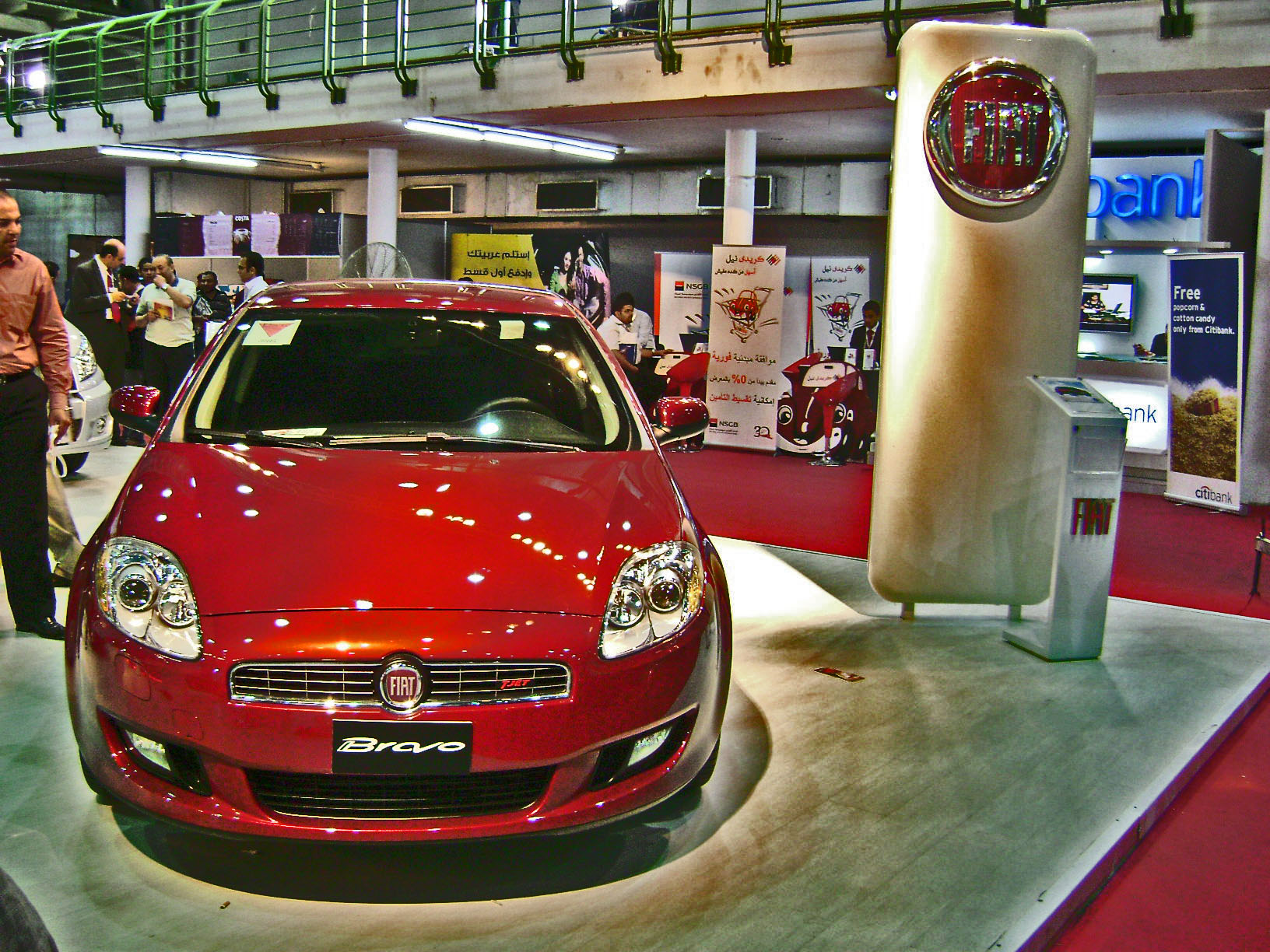 Automech Akhbar El-Youm Autoshow 2008 in Cairo, Egypt 1.4 Liters, manual costs 125,000 L.E (23,600 $), while the sport manual costs 145,000 L.E. (27,350 $) Location: Ard El-Ma'ared (Exhibitions ground), Salah Salem Photoshop: Using shadow/Highlight View large on black. More Details More Obvious